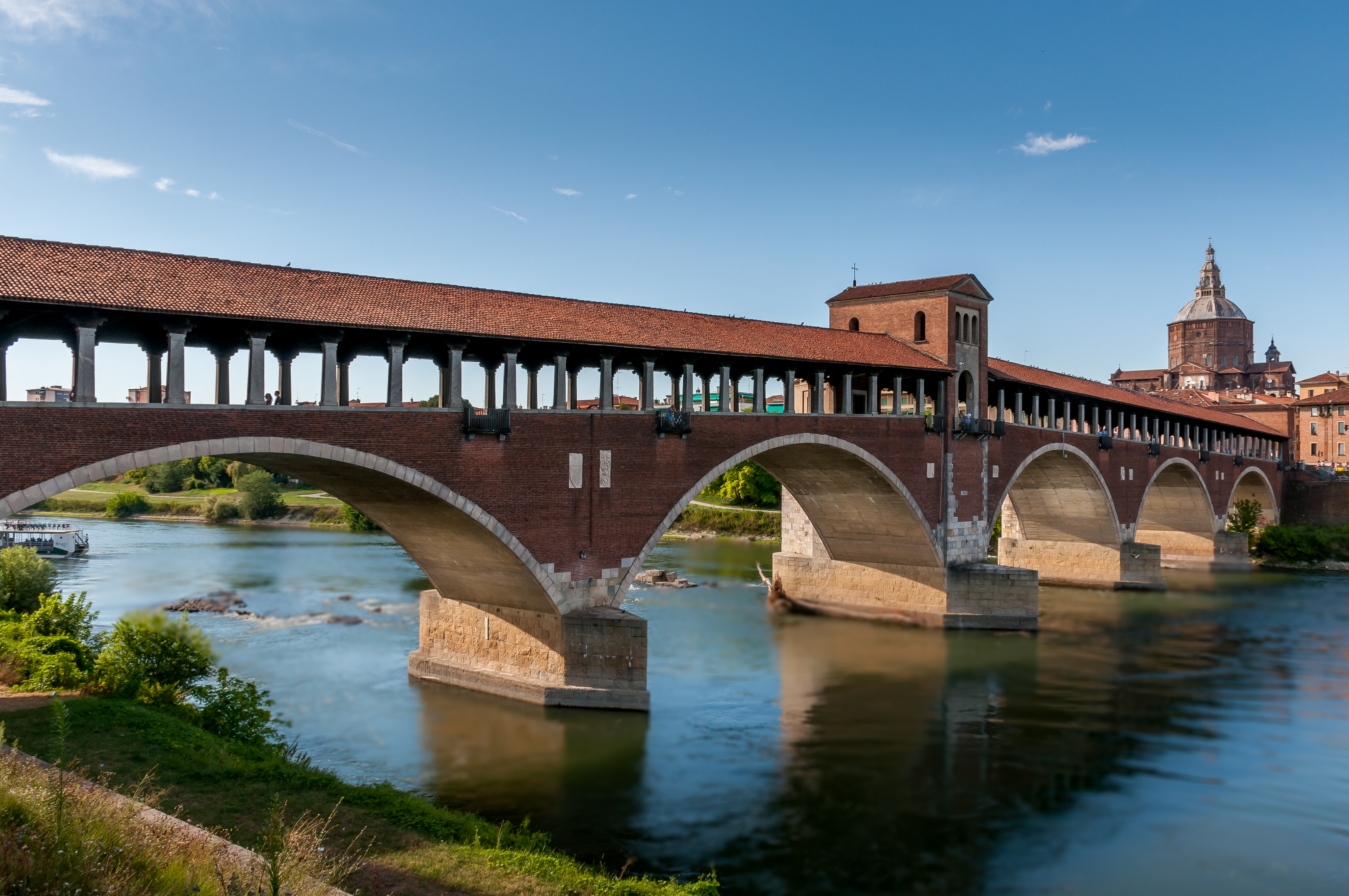 Covered Bridge This is a photo of a monument which is part of cultural heritage of Italy.